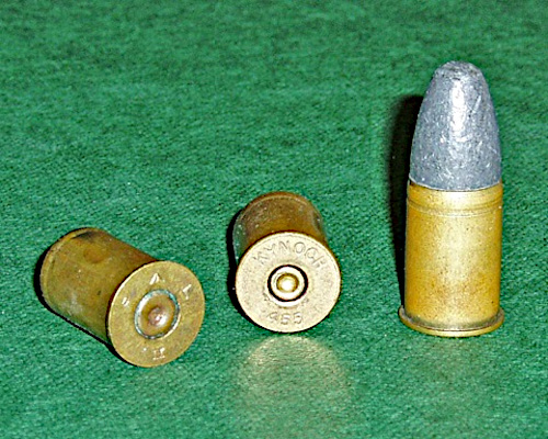 British .455in SAA Ball (Webley 455) ammunition. The empty cartridge cases are the military WD issue and a civilian Kynoch. Picture taken by me Ian Dunster in April 2006.